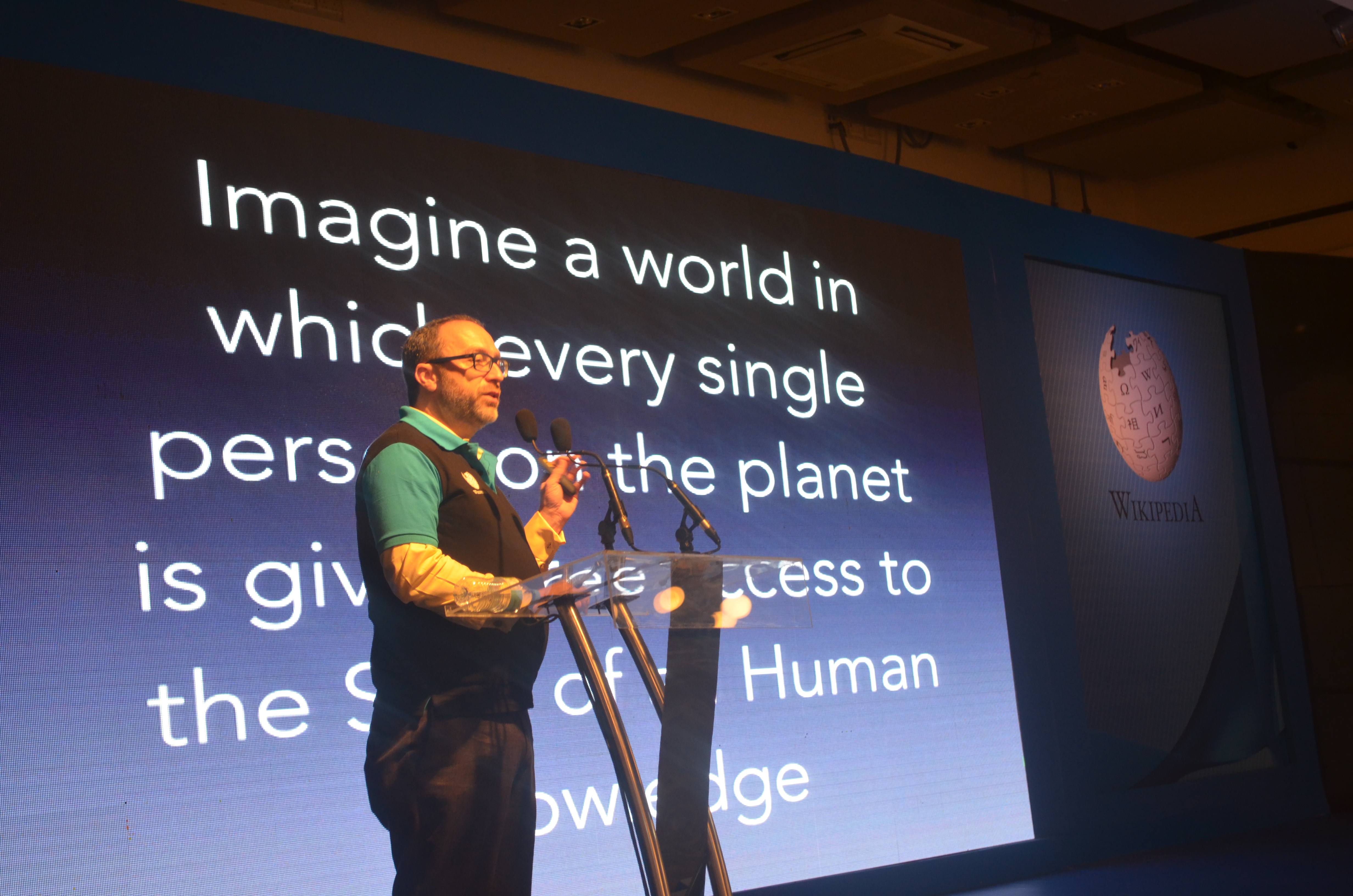 Jimbo at Bengali Wikipedia 10th anniversary celebration gala event, Dhaka on 26th February, 2015 at Hotel Radisson Blu Water garden, Dhaka, Bangladesh.